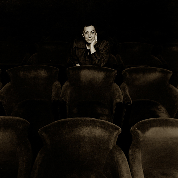 Odette Nicoletti portrait